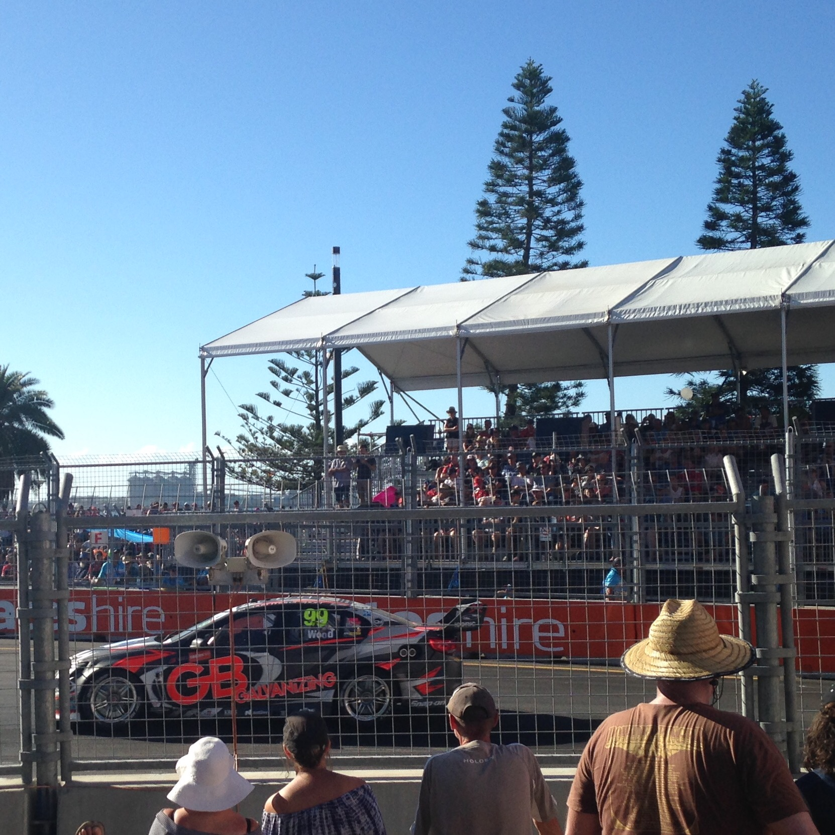 Dale Wood competing for Erebus Motorsport in the 2017 Newcastle 500